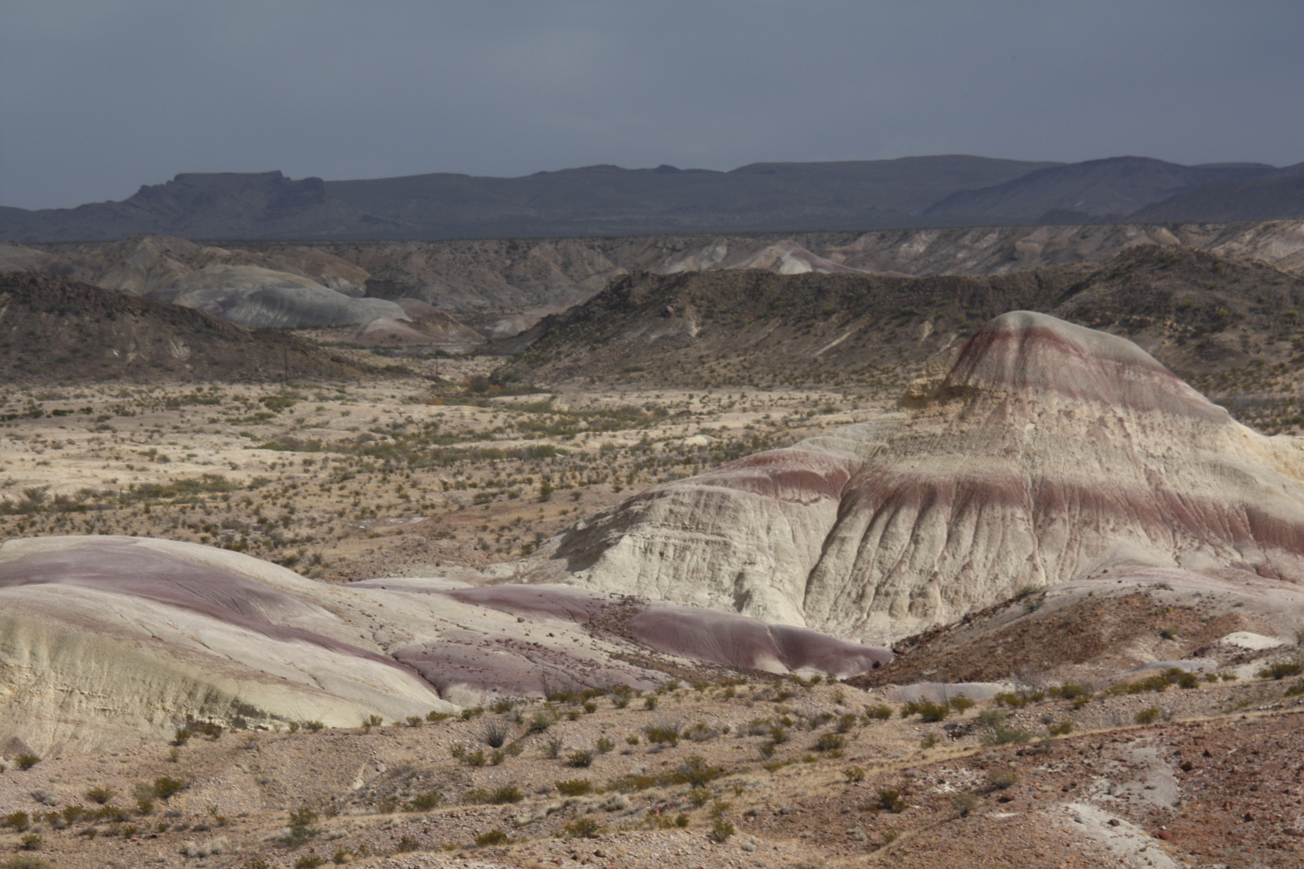 Outcrops of the Javelina Formation, Big Bend National Park, Texas, USA. Photograph by Nick Longrich